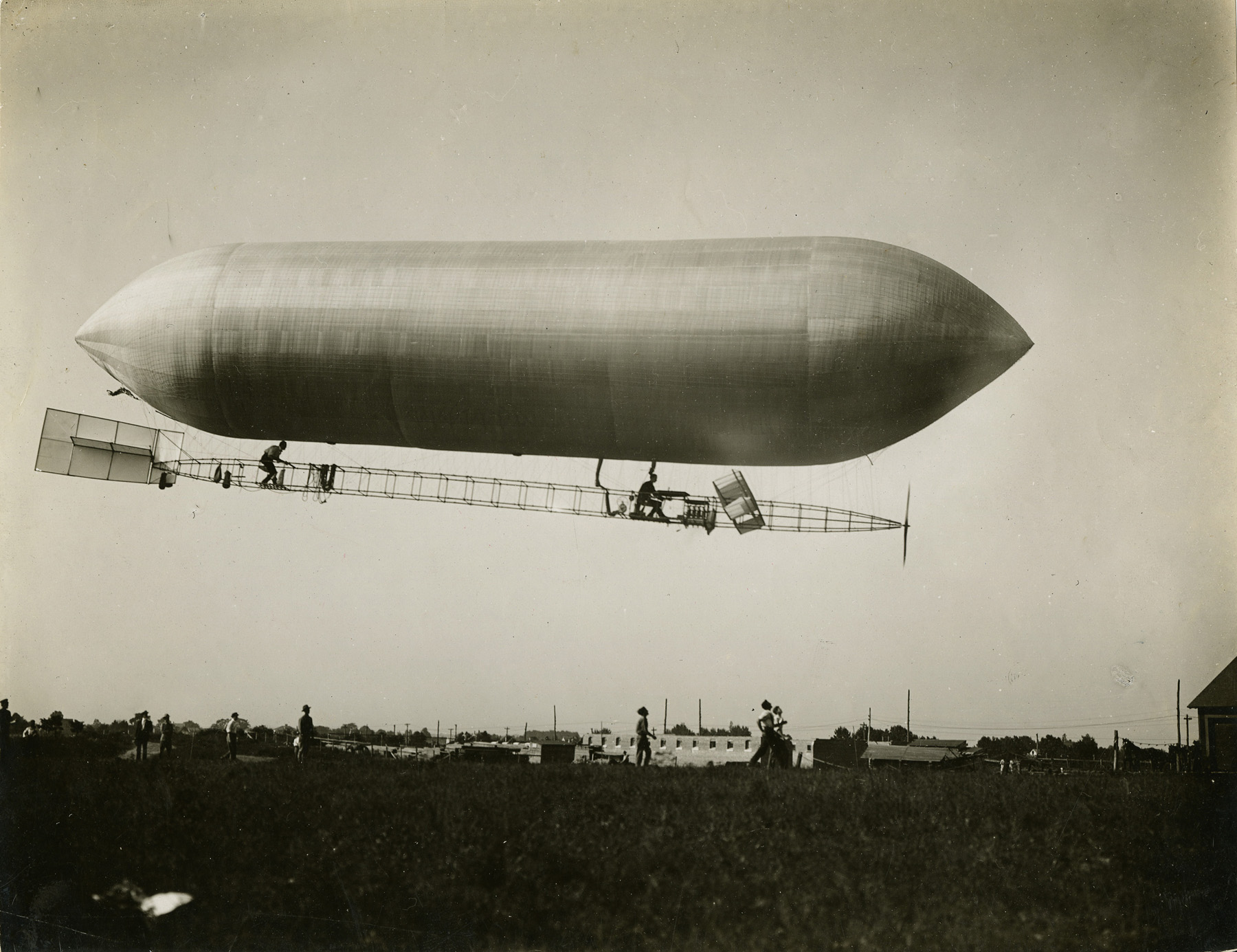 Signal Corps Dirigible No 1. (U.S. Air Force photo)